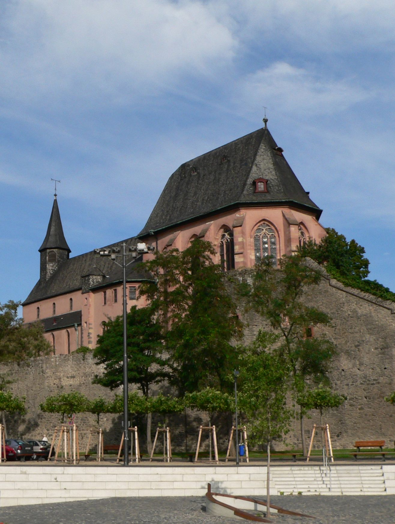 St. Justin's in Frankfurt-Höchst from south-east with subsided gothic choir